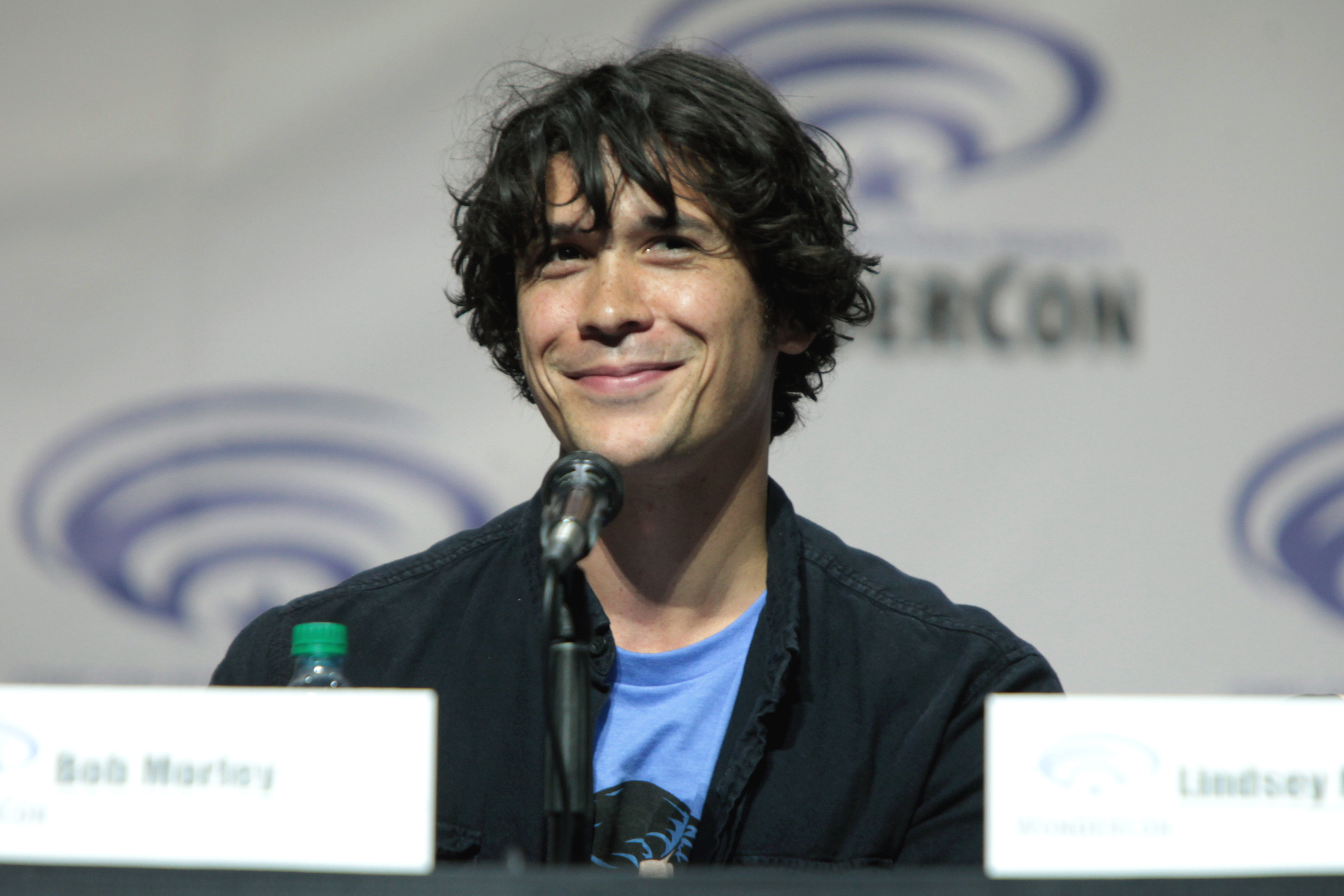 Bob Morley speaking at the 2016 WonderCon, for "The 100", at the Los Angeles Convention Center in Los Angeles, California.